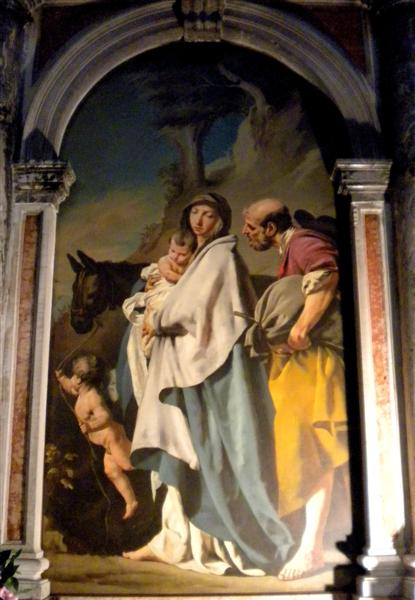 The Flight into Egypt